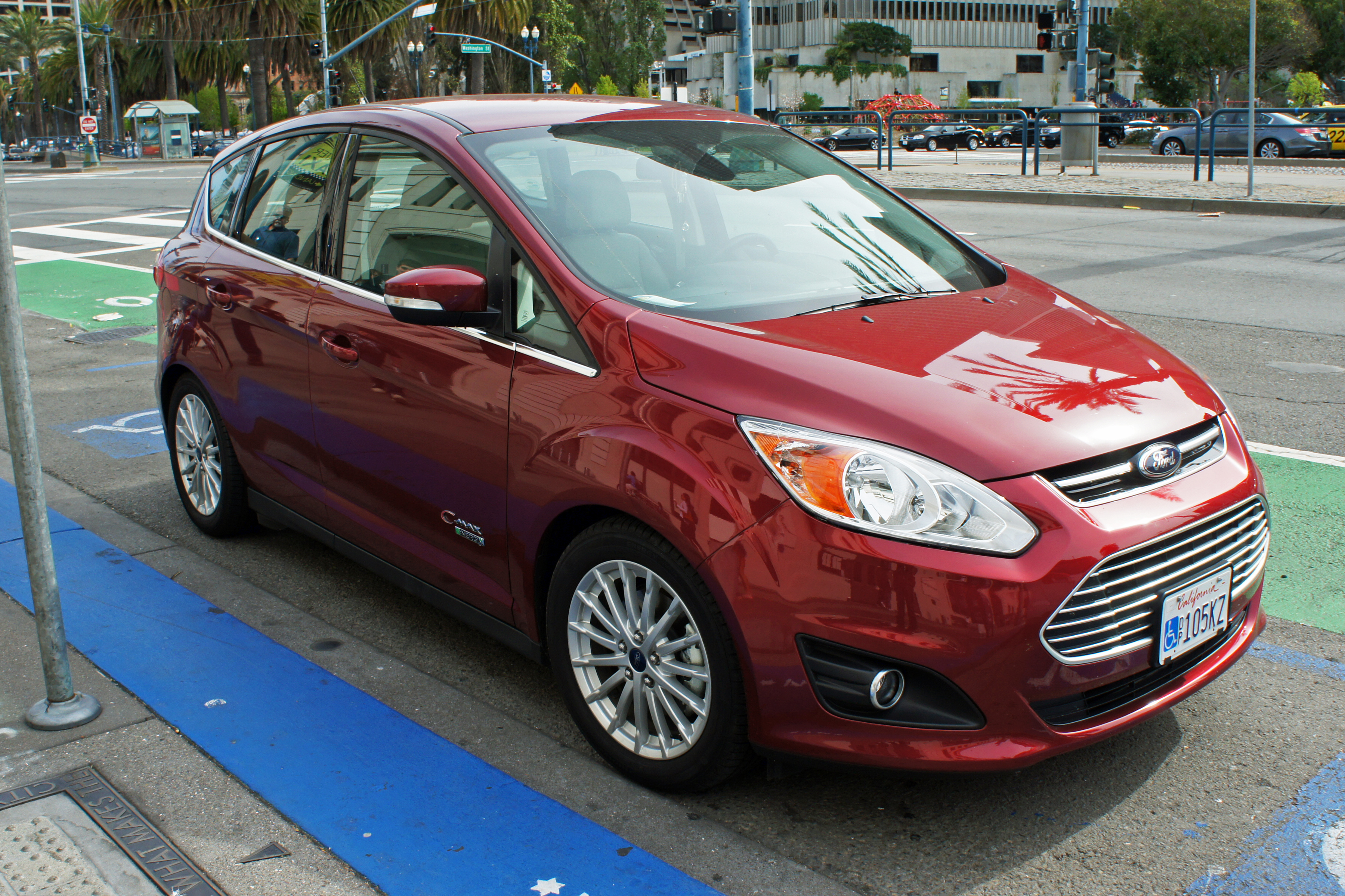 Ford C-Max Energi plug-in hybrid, Embarcadero, San Francisco, California